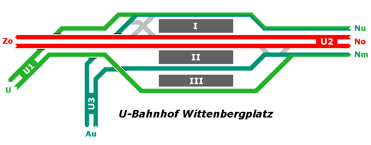 Map of Berlin Metro (U-Bahn) station Wittenbergplatz